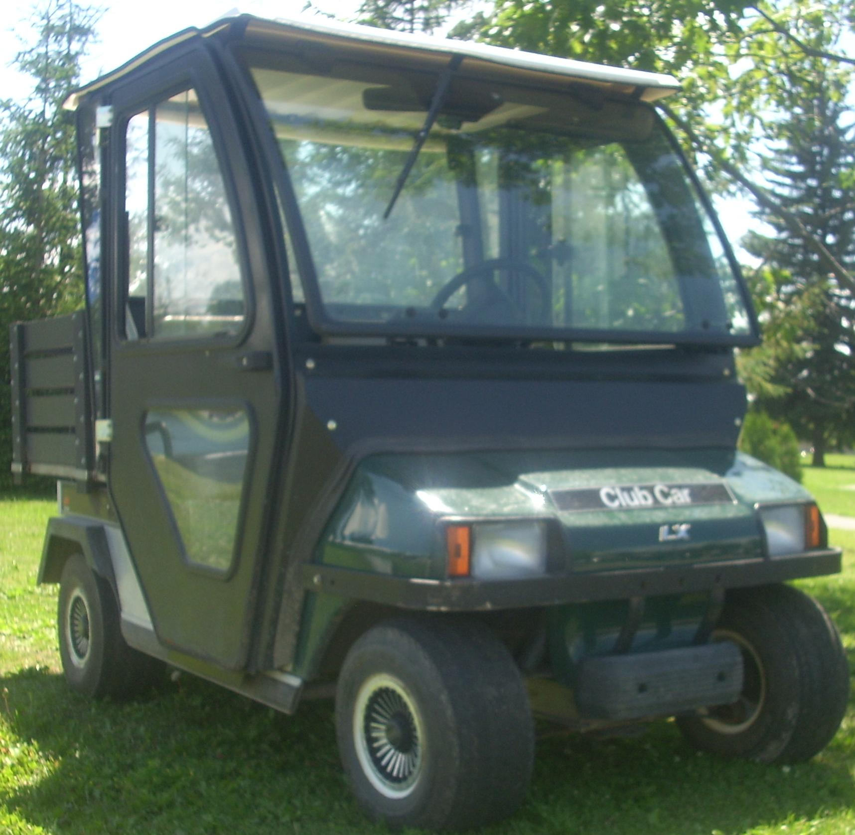 Club Car LX photographed in Ste. Anne De Bellevue, Quebec, Canada at the 2010 Ste. Anne De Bellevue Veteran's Hospital Auto Show.